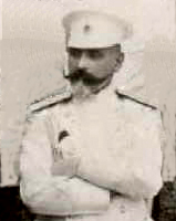 Subbotich, Deyan Ivanovich